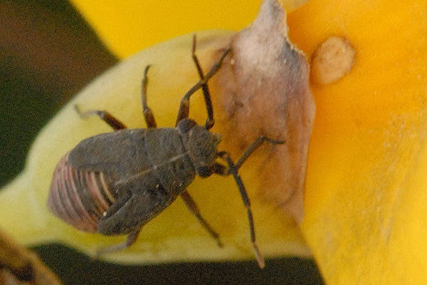 Orthocephalus coriaceus from Commanster, Belgian High Ardennes .